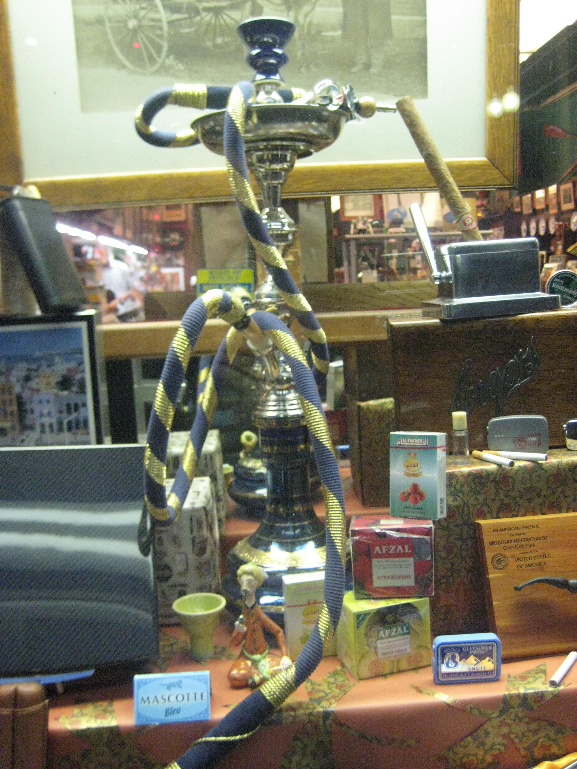 A hookah and a variety of tobacco products on display in a Harvard Square store window in Cambridge, United States. October 2007 photo by John Stephen Dwyer Own work according to User:Boston/Photos so it can be assumed that John Stephen Dwyer and User:Boston are the same person.